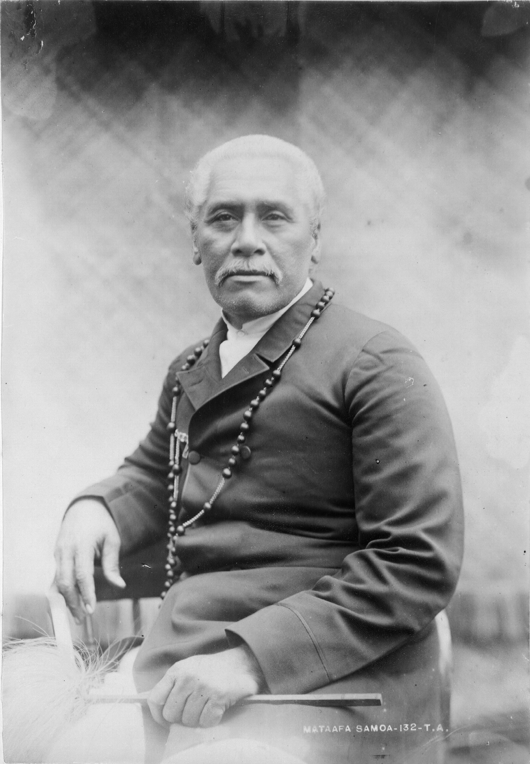 Portrait of Samoan Chief, Mata'afa Iosefo, 1896. Reference Number: PA1-o-469-52. Portrait of the Samoan Chief, Mata'afa Iosefo, photographed by Thomas Andrew/